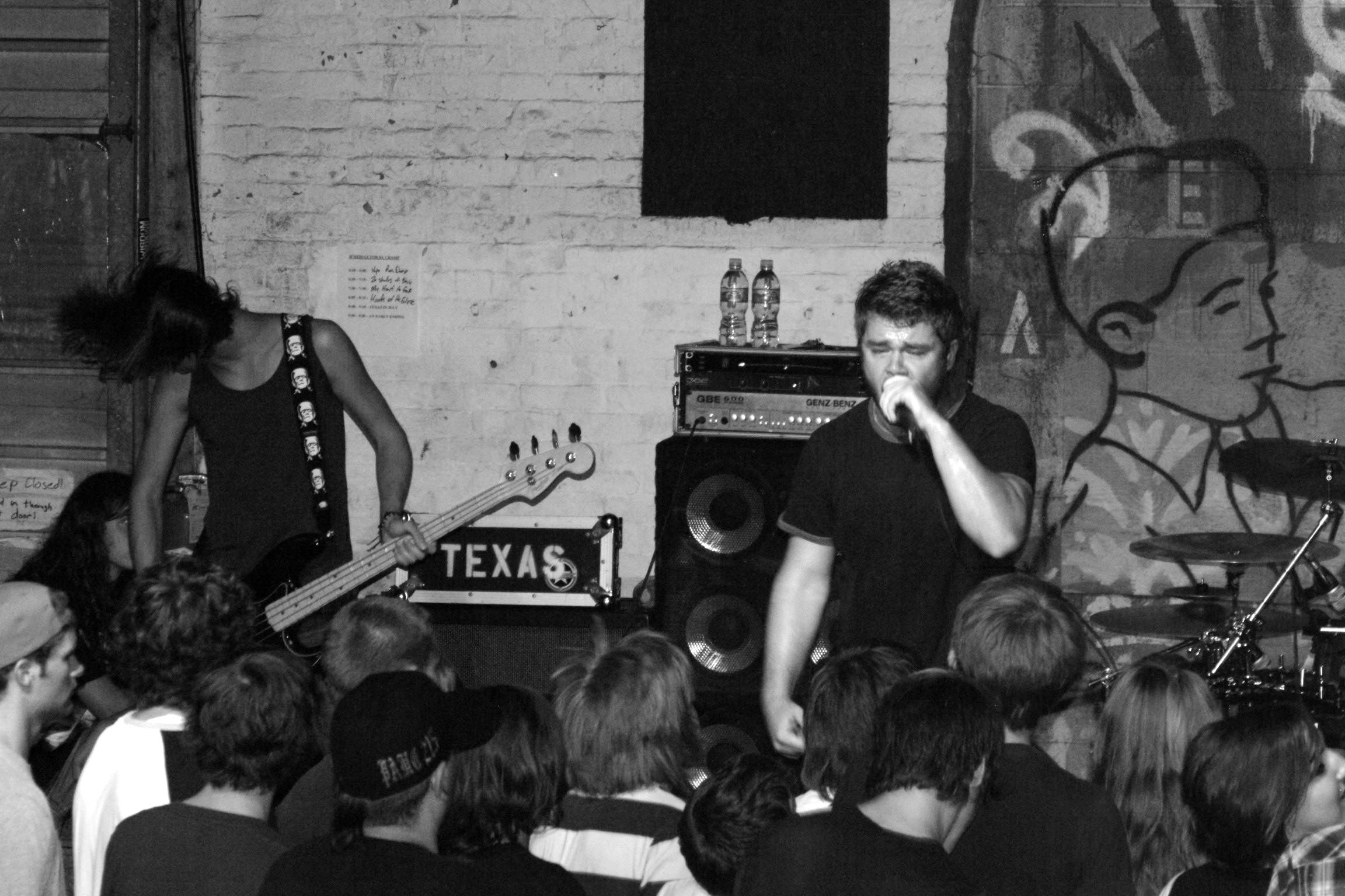 The American rock group Texas in July photographed in concert in 2009. Photographed by Ted Van Pelt with Creative Commons License.